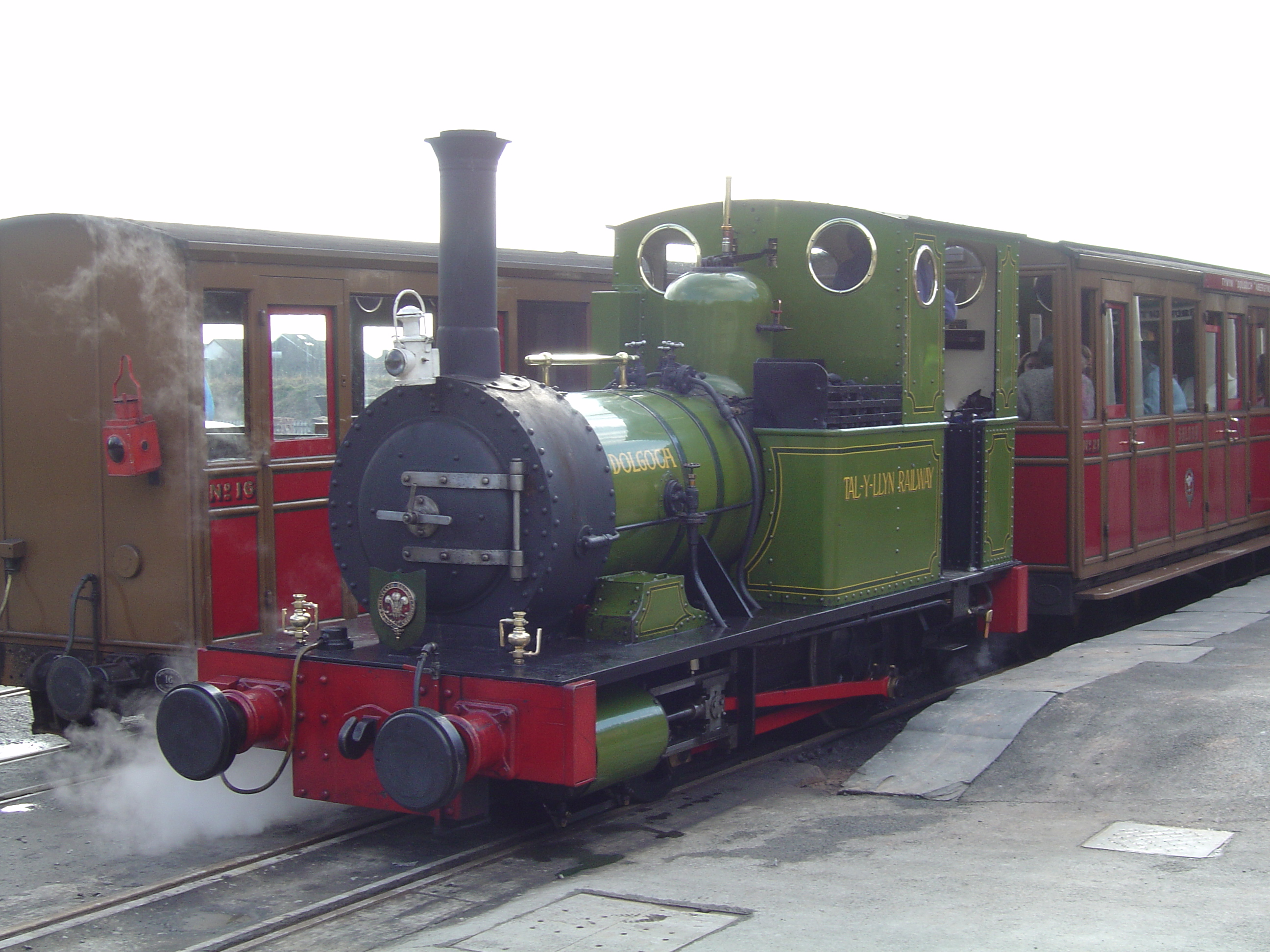 Talyllyn Railway Number 2: Dolgoch at Tywyn Wharf